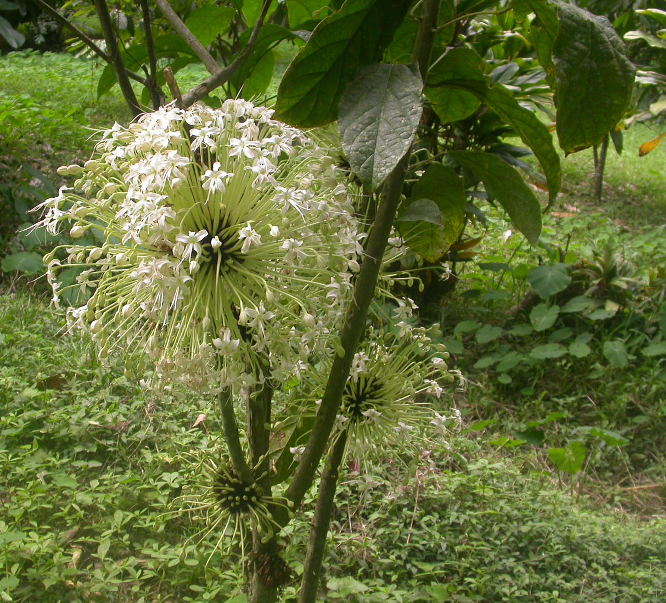 Clerodendrum globuliflorum photographed in Kisantu botanic garden, DR Congo